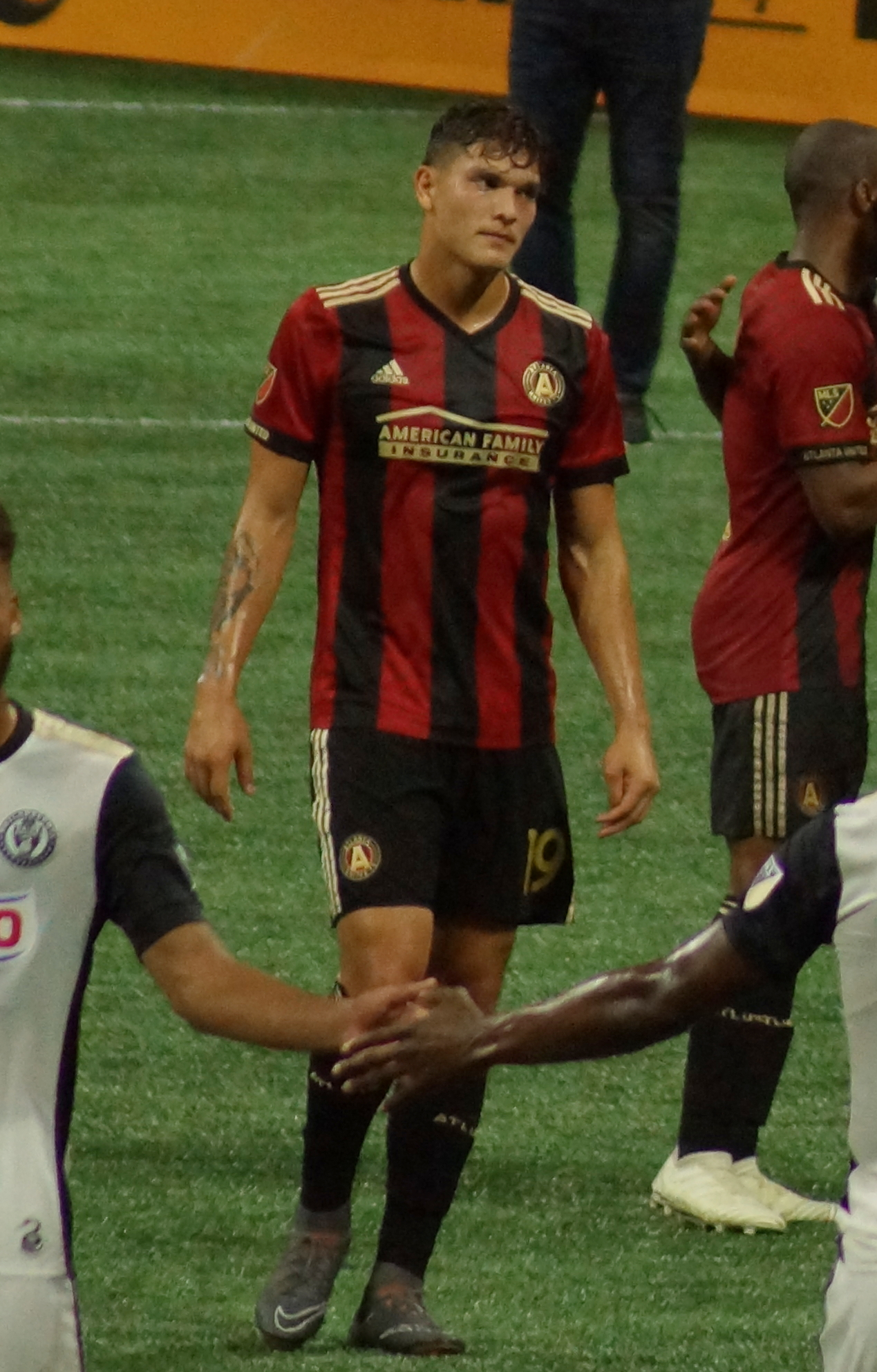 Brandon Vazquez after the Atlanta United game on June 2, 2018